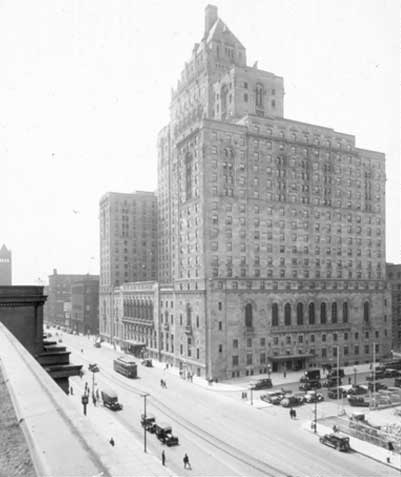 Royal York Hotel, Toronto, Canada.